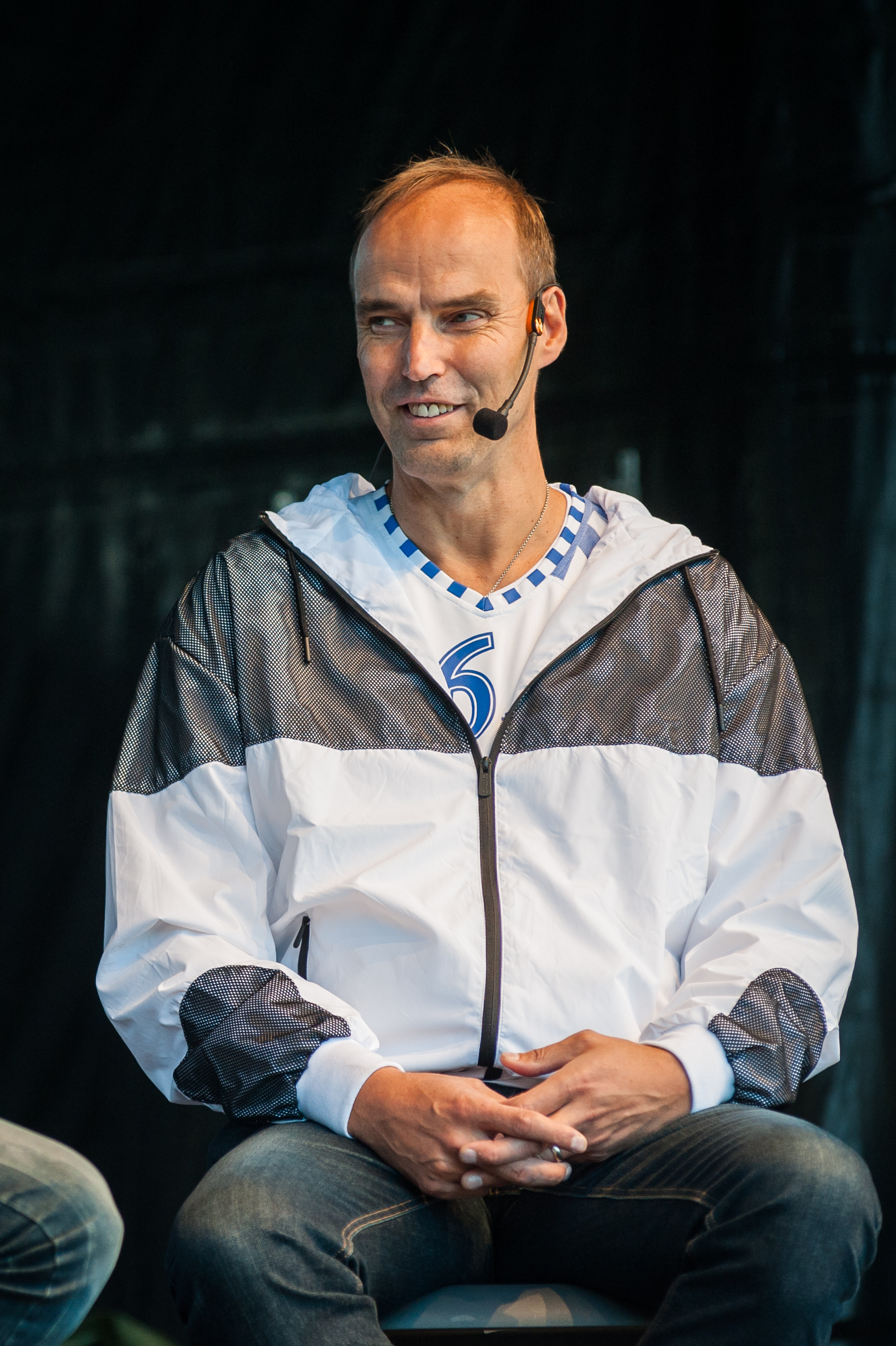 Former Finnish basketball player Pekka Markkanen being interviewed at the EuroBasket 2017 Fan Zone in Helsinki, Finland. Markkanen is the father of the soccer player Eero Markkanen and the basketball player Lauri Markkanen.